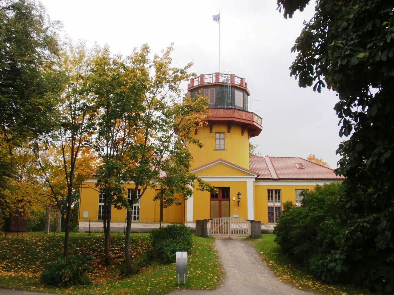 Tartu Old Observatory on Toomemägi, Tartu, Estonia.